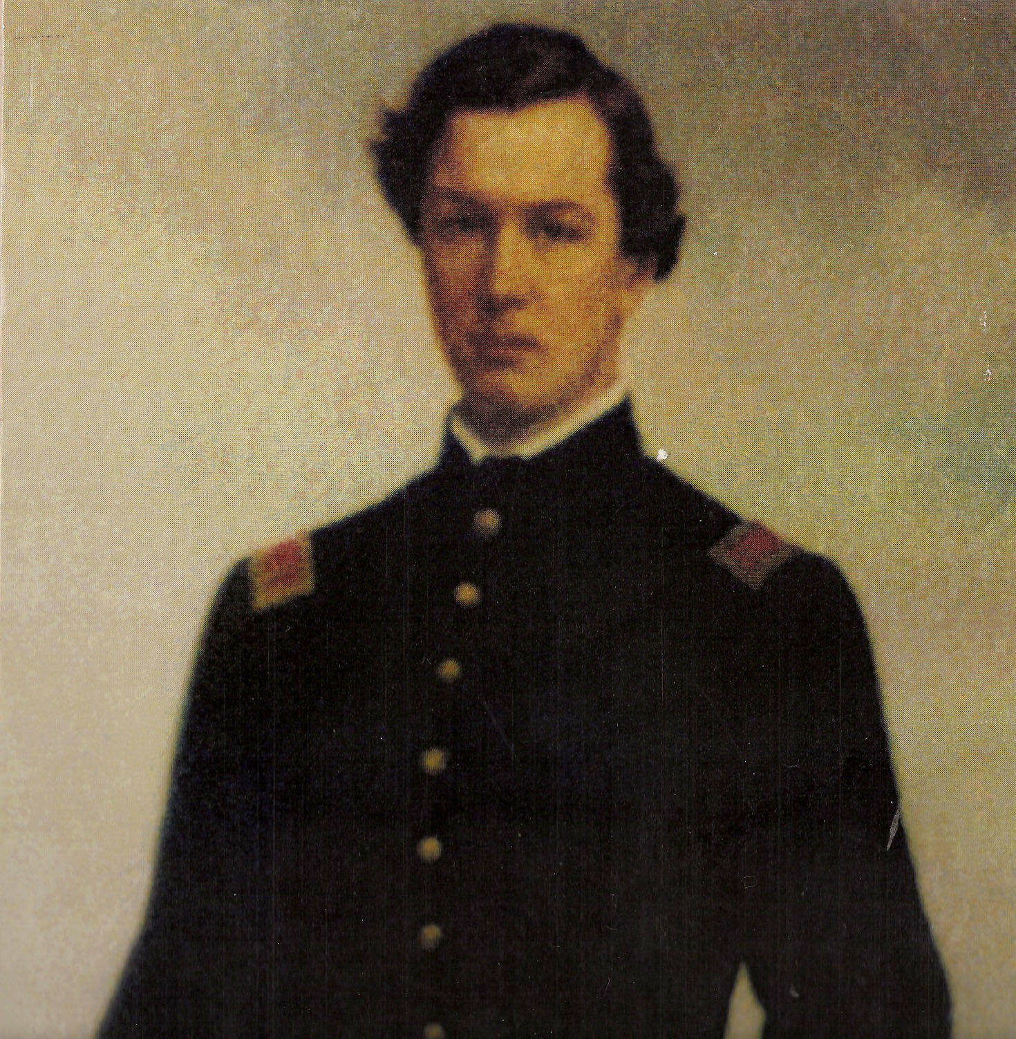 Lieutenant Howard Matther Burnham (1842-September 19, 1863), Chief of Artillery, United States Army, 10th Regement, Battery II, 5th Artillery, who was killed at the Battle of Chickamauga, U.S. Civil War. Shot in the breast and died two hours later. Son of Roderick H. Burnham.